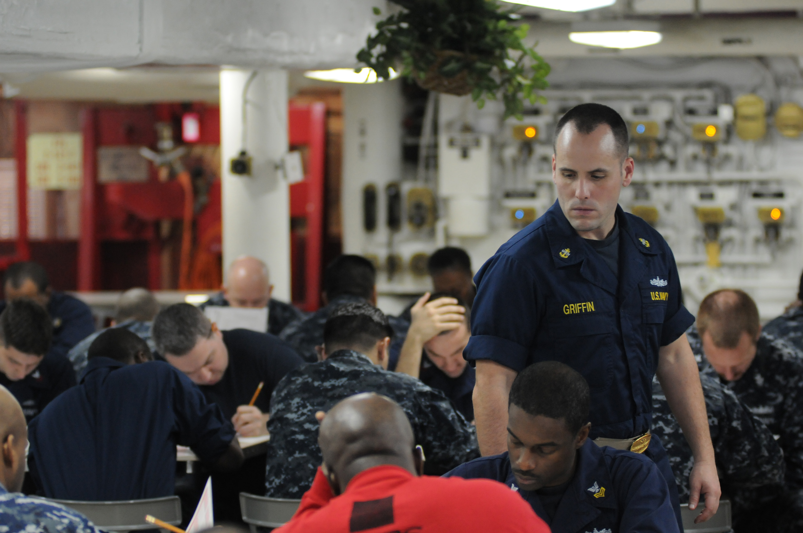 ARABIAN SEA (Jan. 19, 2012) Chief Damage Controlman Ty Griffin proctors the chief petty officer exam aboard the Nimitz-class aircraft carrier USS Carl Vinson (CVN 70). Carl Vinson and Carrier Air Wing (CVW) 17 are deployed to the U.S. 5th Fleet area of responsibility. (U.S. Navy photo by Mass Communication Specialist 2nd Class Benjamin Stevens/Released)